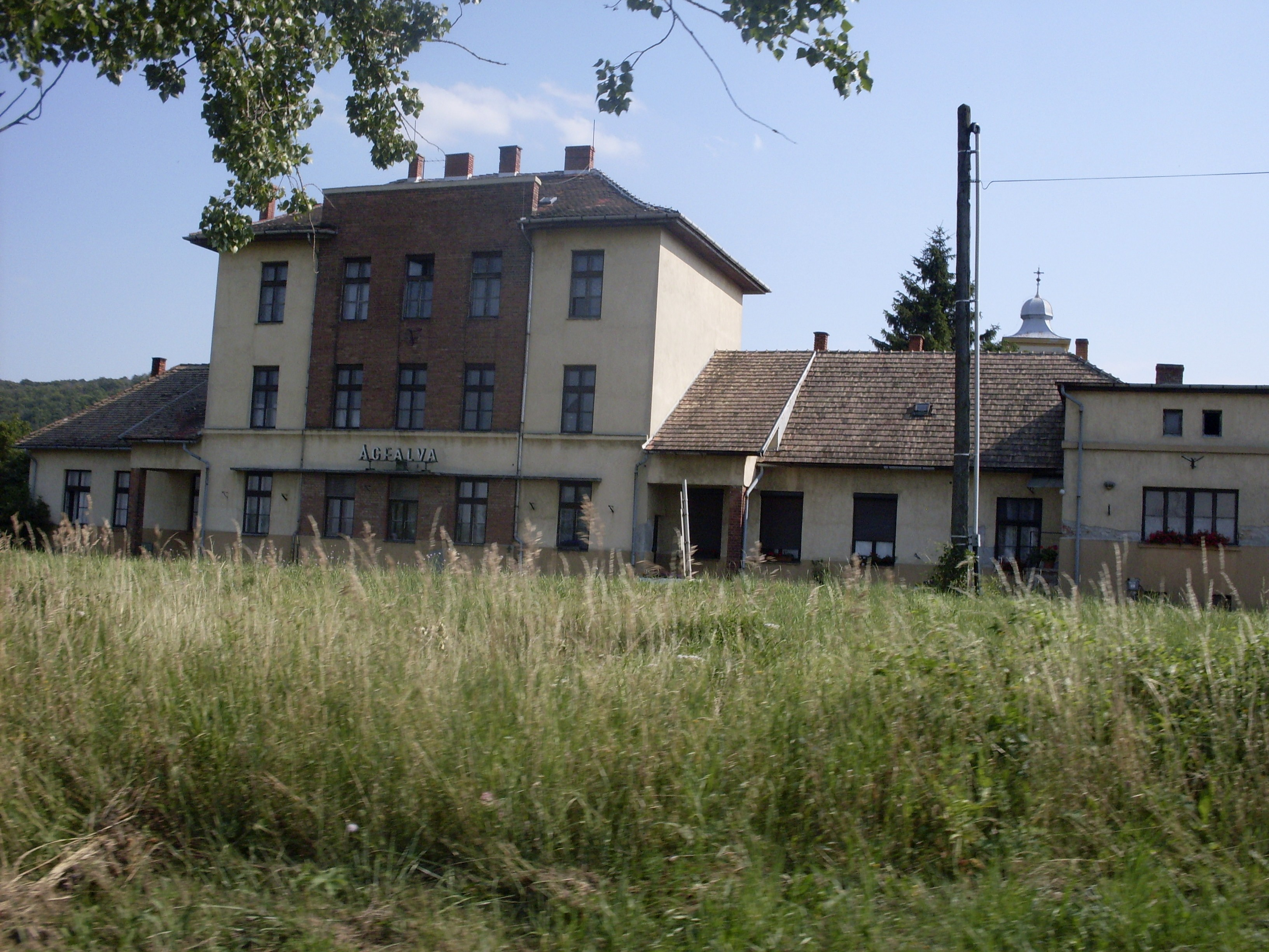 Agfalva, Hungary - train station